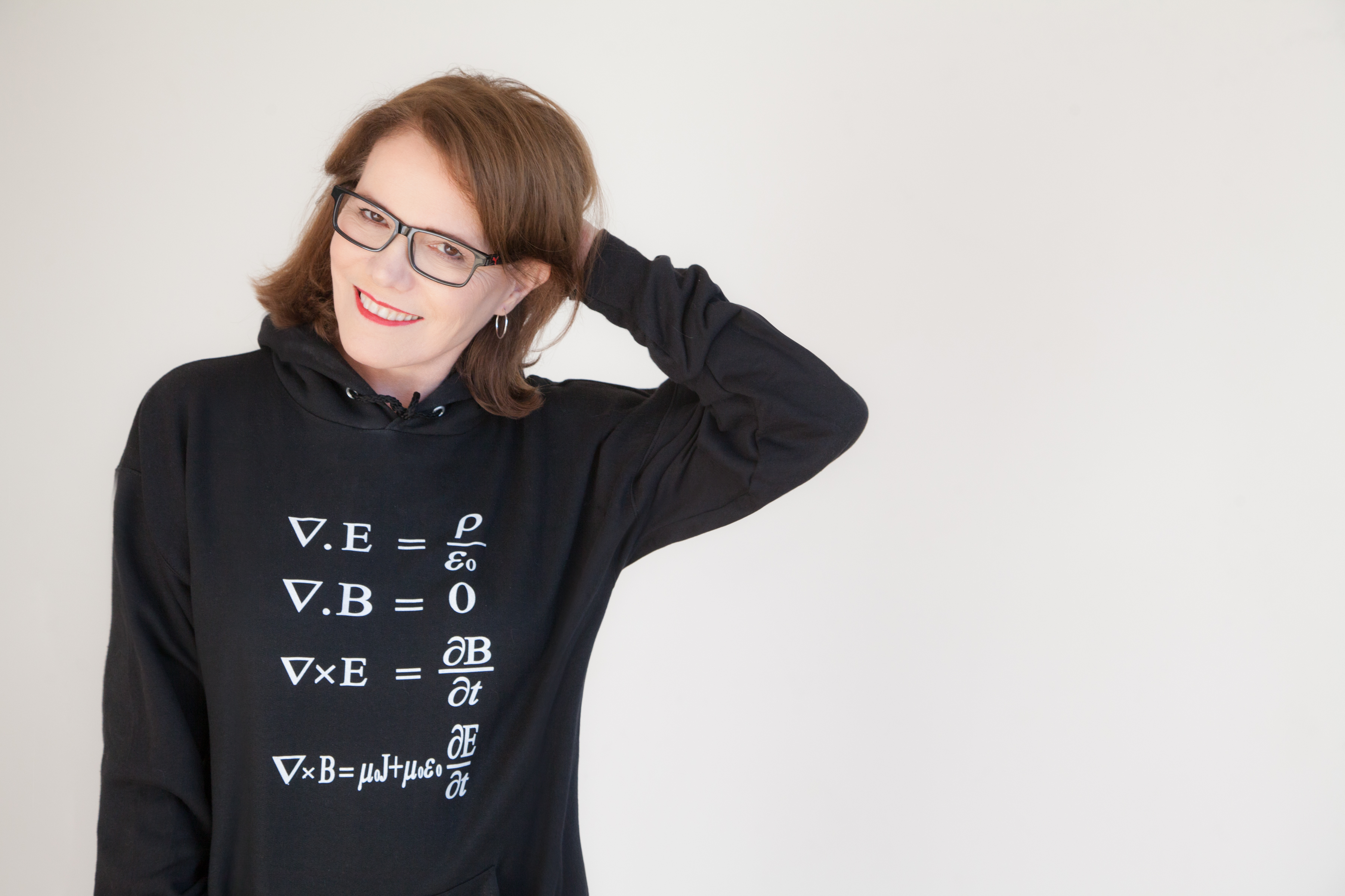 Lorraine Feather, Math Camp photo shoot—photo by Mikel Healey.jpg. Her hoodie despicts the Maxwell's equations